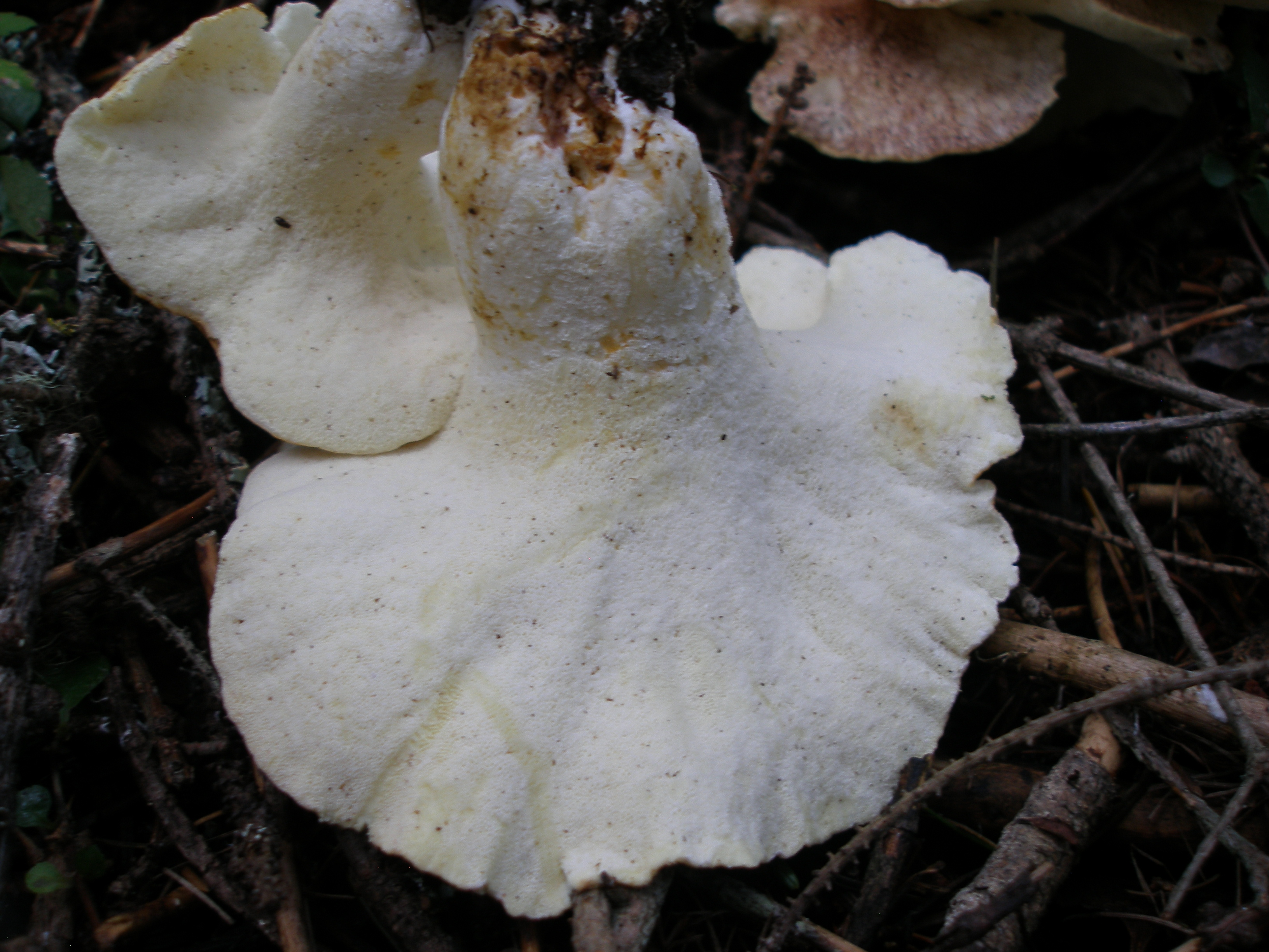 Albatrellus ovinus (Fr.) Kotl.& Pouz. Image location: Ravalli Co., Montana, USA Recognized by sight For more information about this, see the observation page at Mushroom Observer.